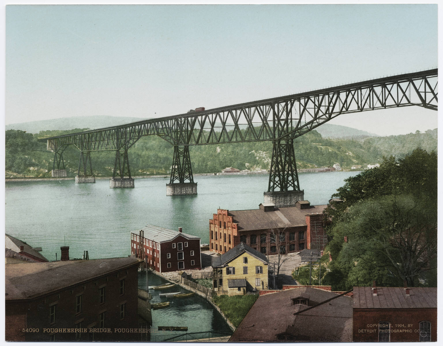 Poughkeepsie Bridge. (Poughkeepsie, New York.) A photochrom postcard published by the Detroit Photographic Company.